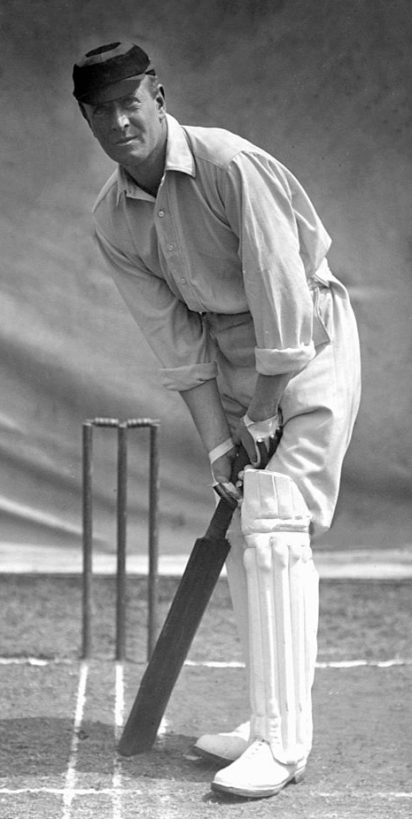 Henry Knollys Foster, Worcestershire, circa 1905.